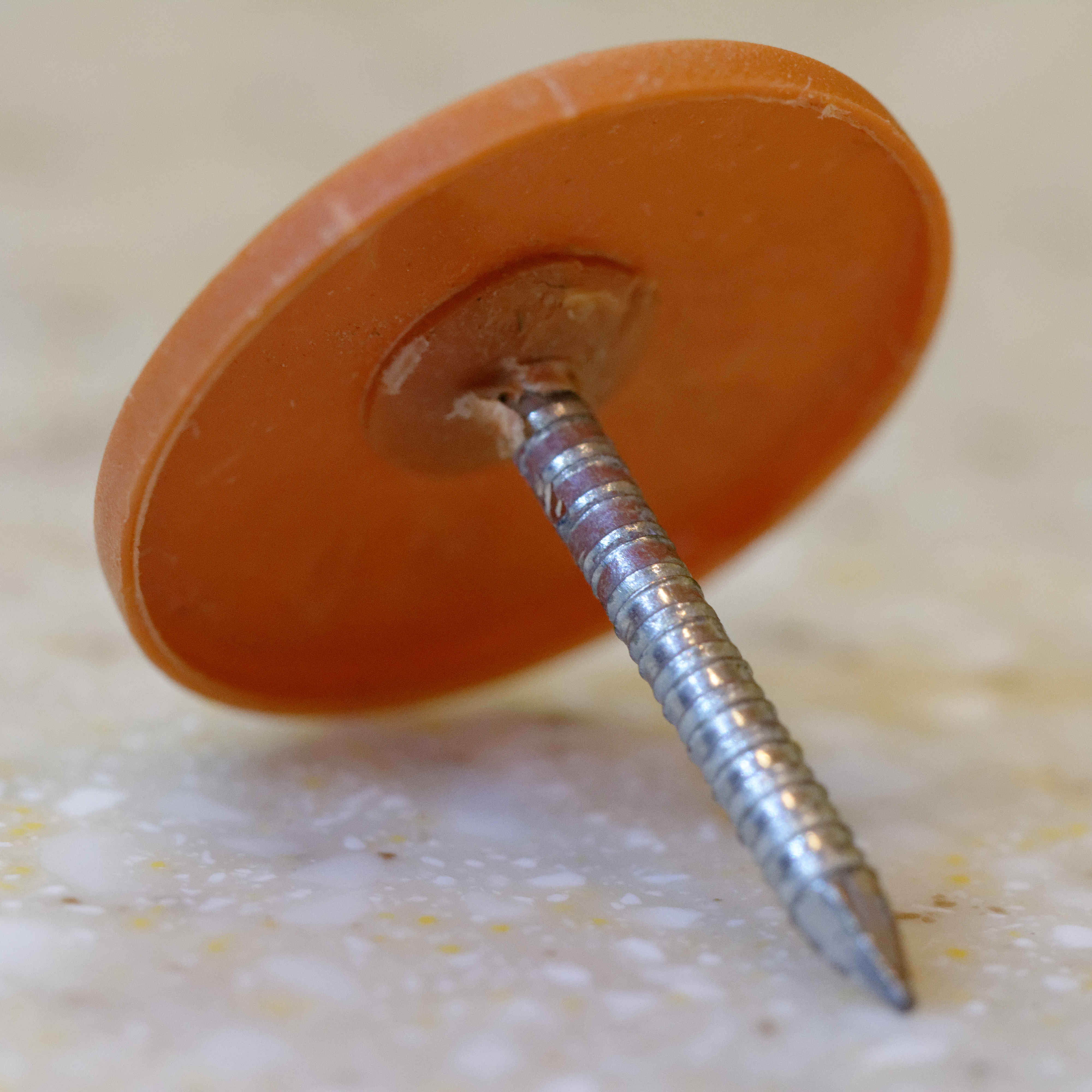 A roofing nail